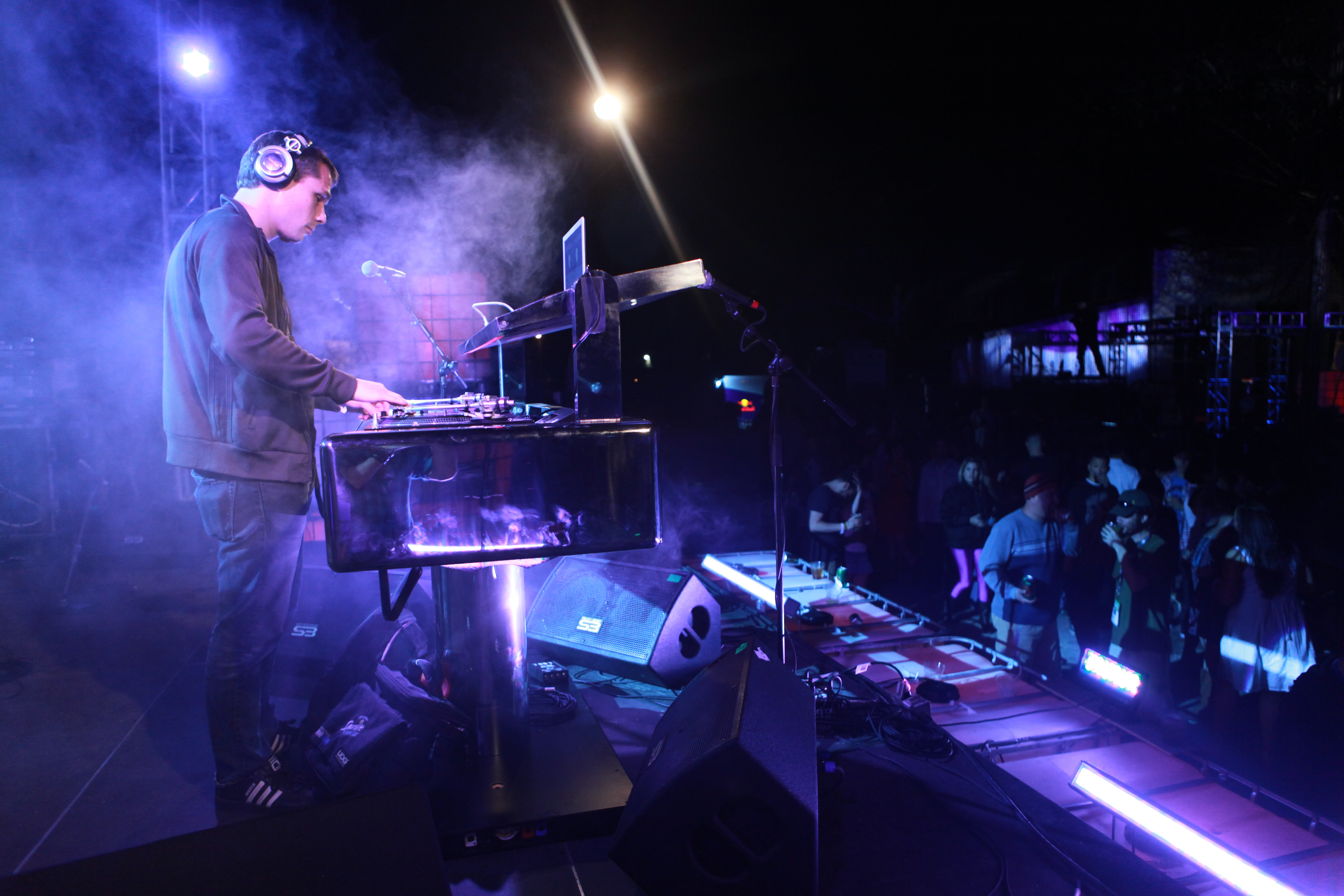 Shepard Fairey DJing photographed by Kris Krug.